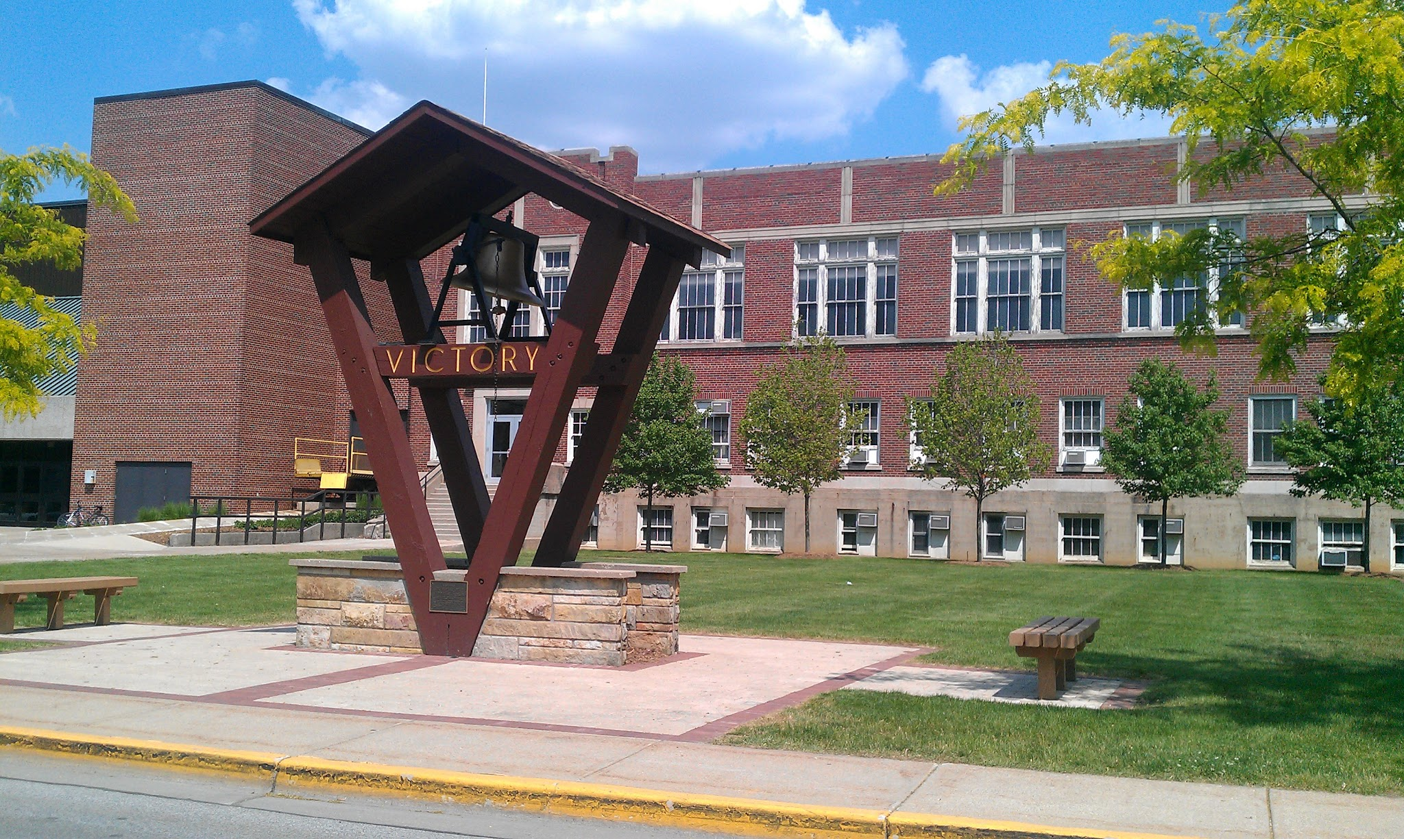 By the old gym, now attached to the Athletics and Recreation Center.